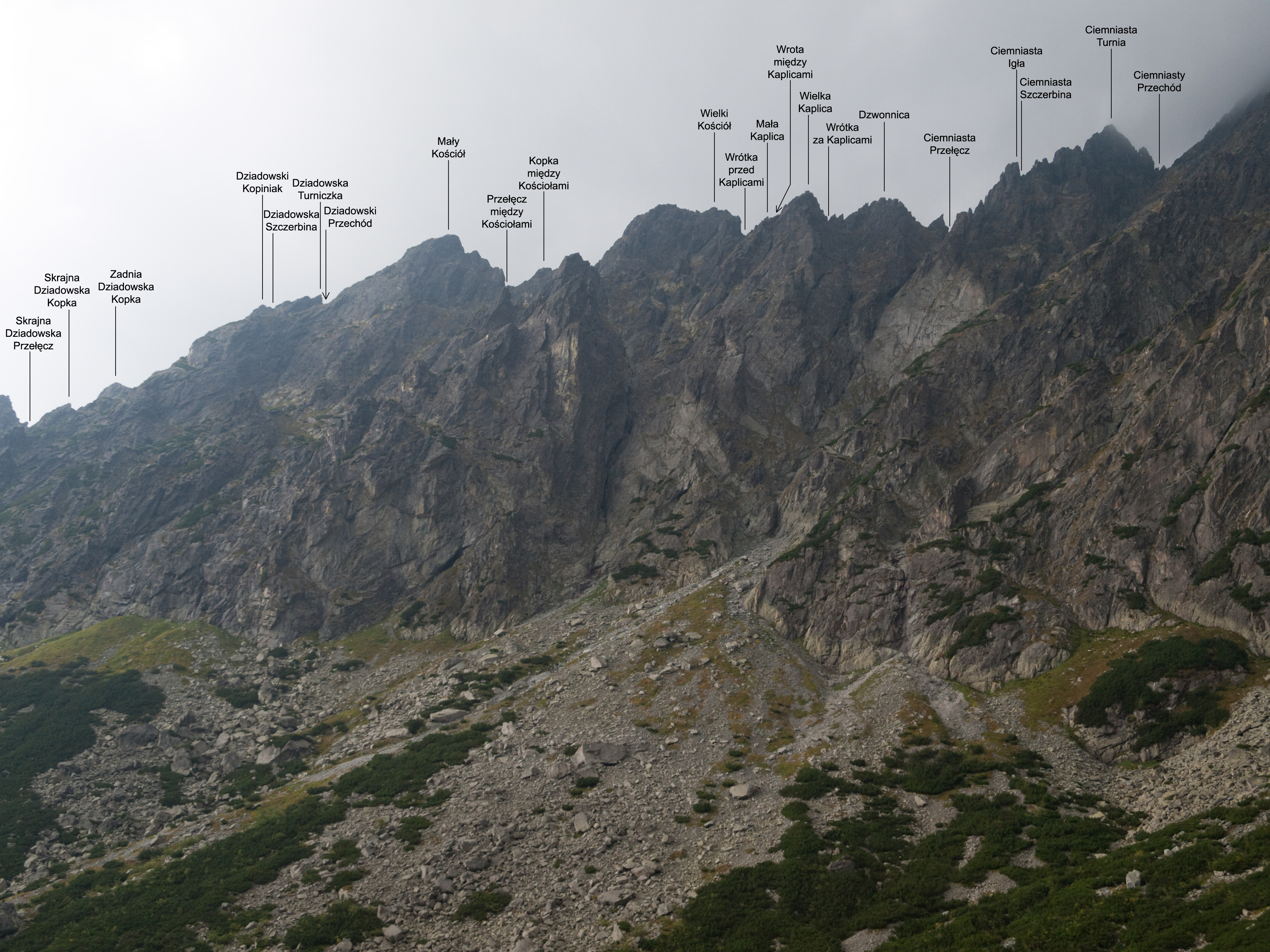 Kostoly and Chmúrna veža - view from Malá Studená Valley. Polish names of peaks and saddles.